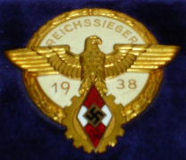 Reichsberufswettkampf 1938 victor's badge - manufactured by "G. Brehmer, Markneukirchen" as marked on backside